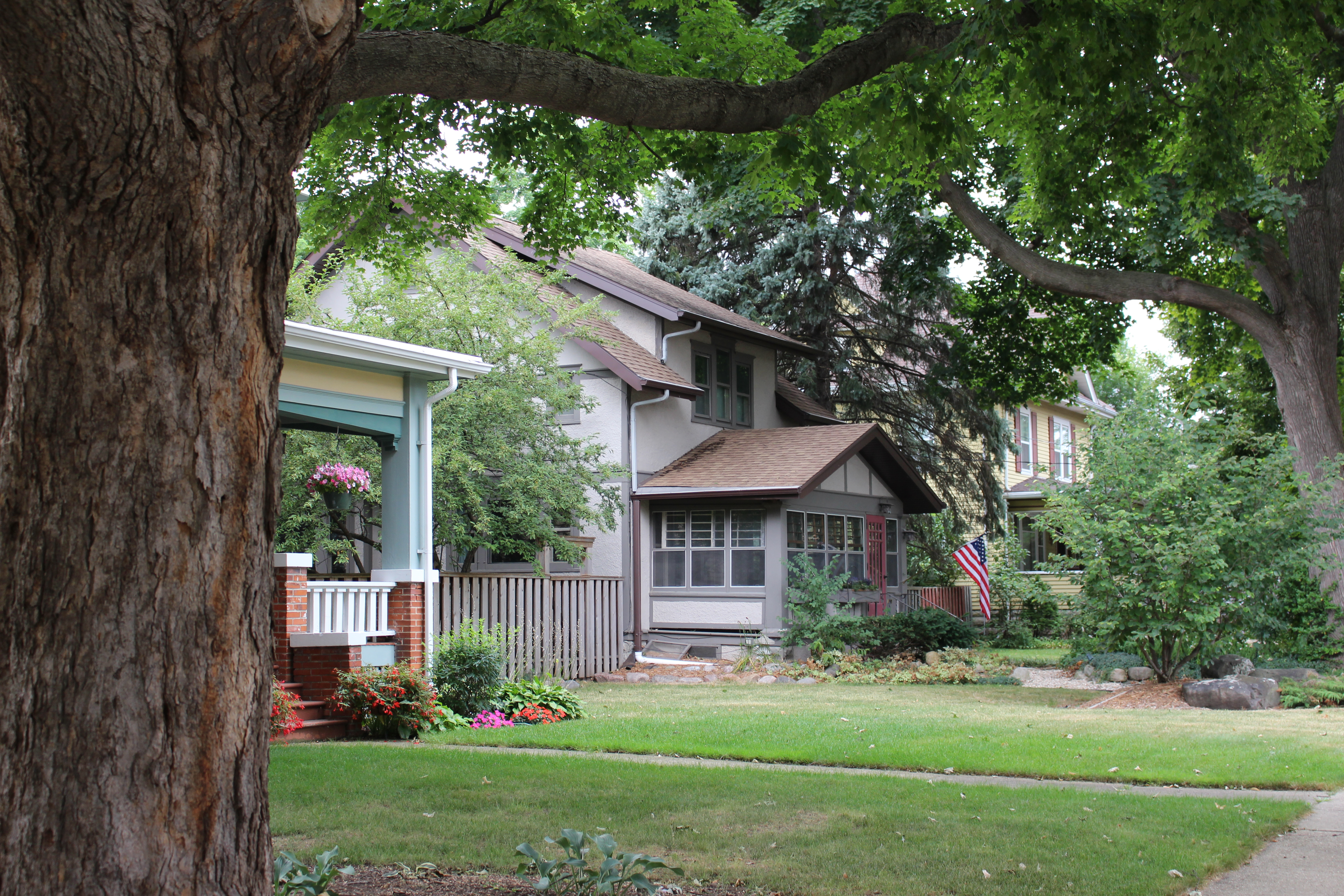 Jefferson Avenue Historic District